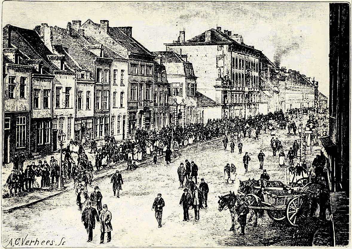 Workers leaving the factories of Petrus Regout in Boschstraat, Maastricht, Netherlands, ca. 1875.